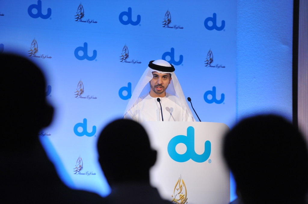 Photo for Ahmed Bukhatir page representing business industry work.